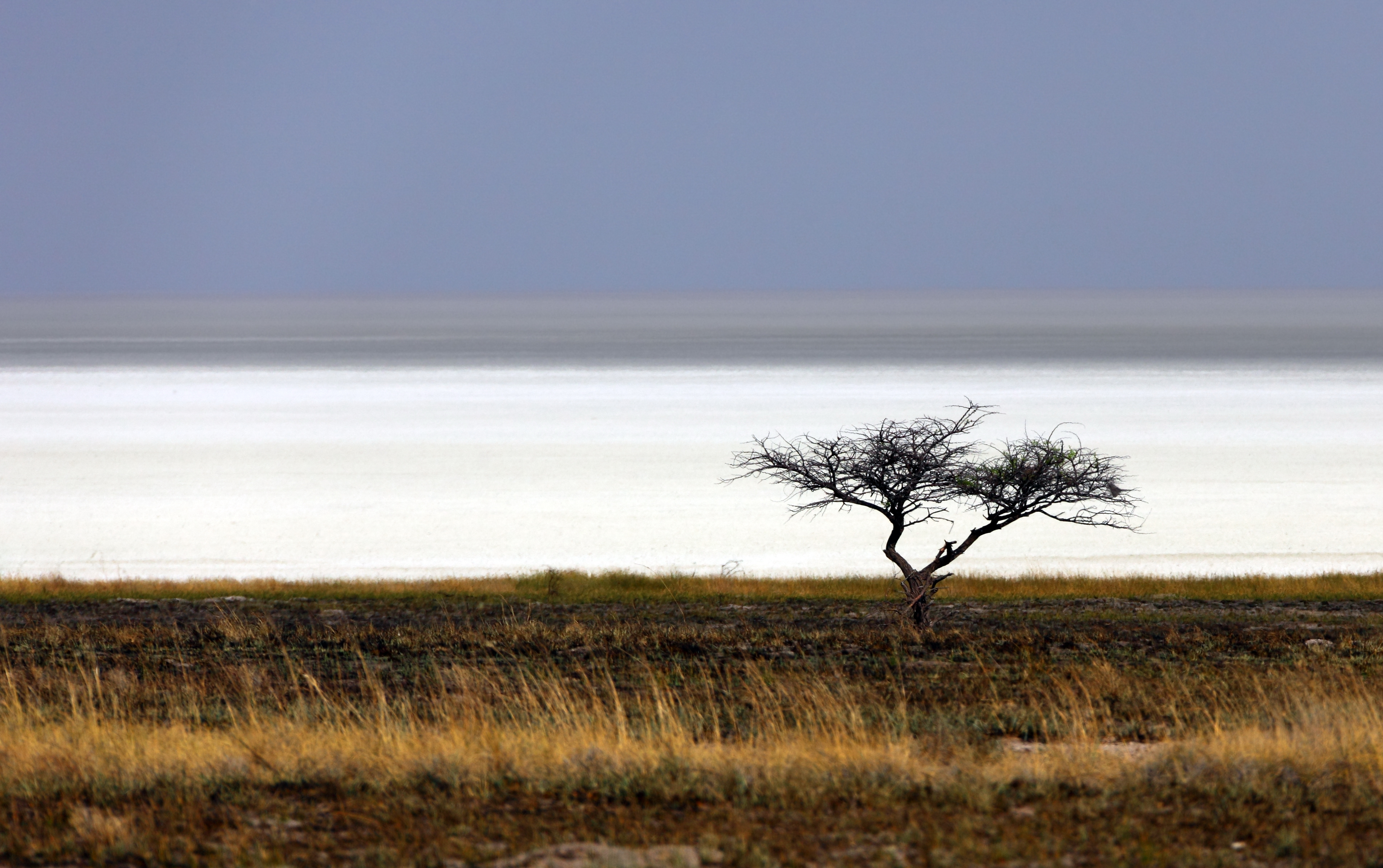 A picture (sight) of dry, hot and salt-encrusted Etosha pan over the parched savannah in Namibia. The air in the background is hot, very shimmering and dusty. The tree is an acacia tortilis.